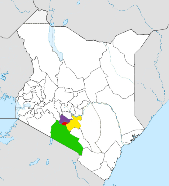 Nairobi Metro location mapKiswahili: Ramani ya Nairobi Metro, Kaunti zake zikiwa na rangi